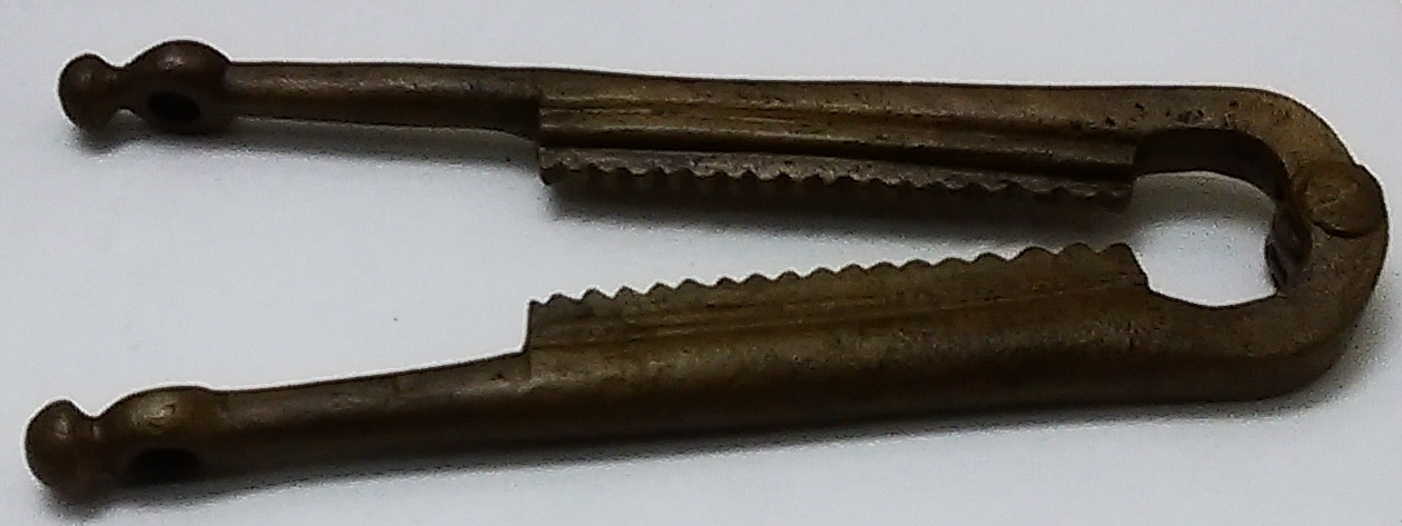 Bordicio castration pliers, an archaeological find from the ancient city of Cabile, present-day Bulgaria